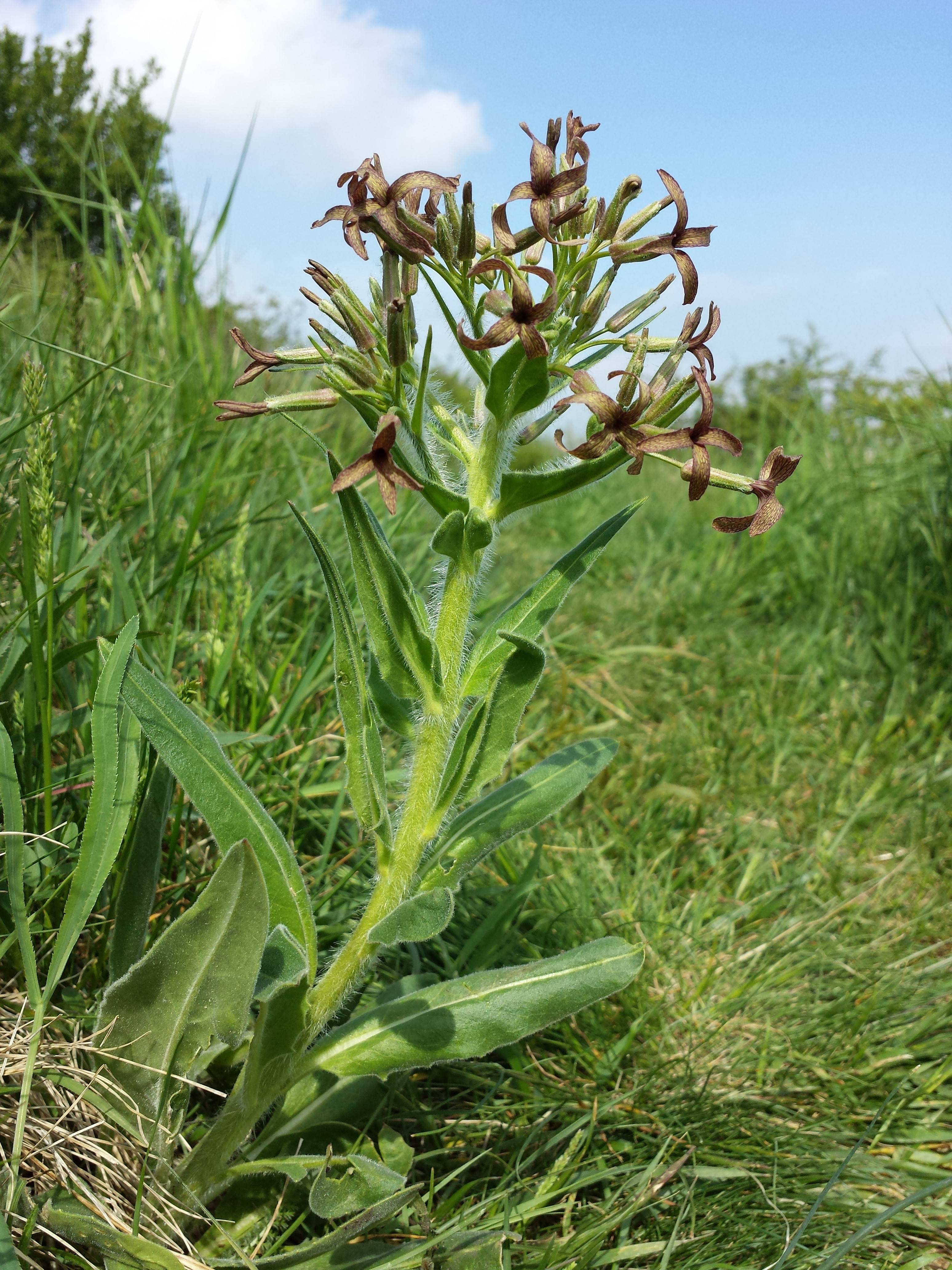 Habitus Taxonym: Hesperis tristis ss Fischer et al. EfÖLS 2008 ISBN 978-3-85474-187-9 Location: Tabulová hora near Klentnice, Jihomoravský kraj, Czech Republic - ca. 450 m a.s.l. Habitat: dry grassland on lime stone